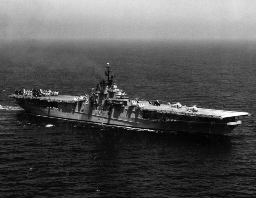 The U.S. Navy aircraft carrier USS Boxer (CVS-21) in 1956–1957, during Boxer´s only deployment as an antisubmarine warfare support carrier (CVS). Grumman S2F-1 Trackers of antisubmarine squadron VS-23 are parked aft, and Sikorsky HSS-1 Sea Bats of helicopter HS-4 antisubmarine squadron are parked forward and amidships.